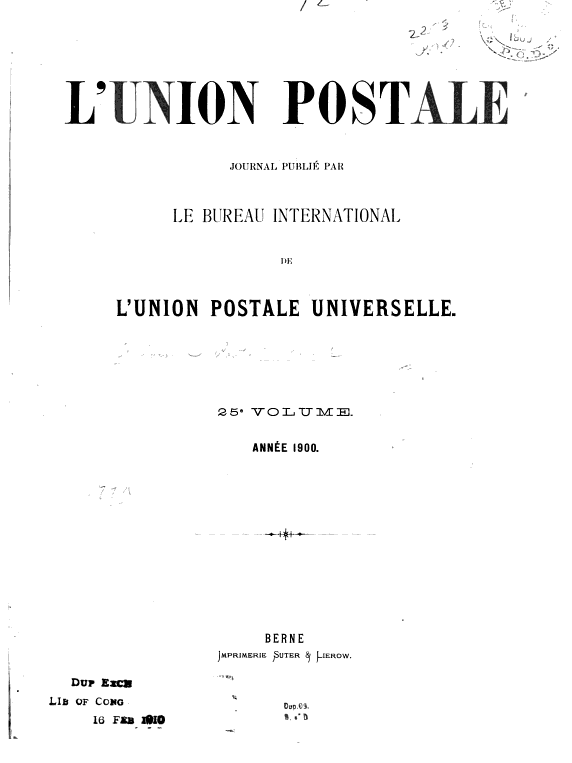 L'Union Postale (cover), an official organ of the Universal Postal Union, 1900, Vol. 25. Published in Bern. Scanned by Google Books.